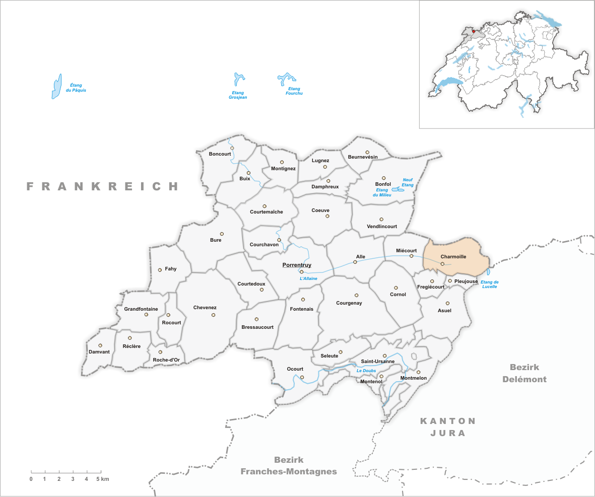 Municipality Charmoille Artist: Tschubby